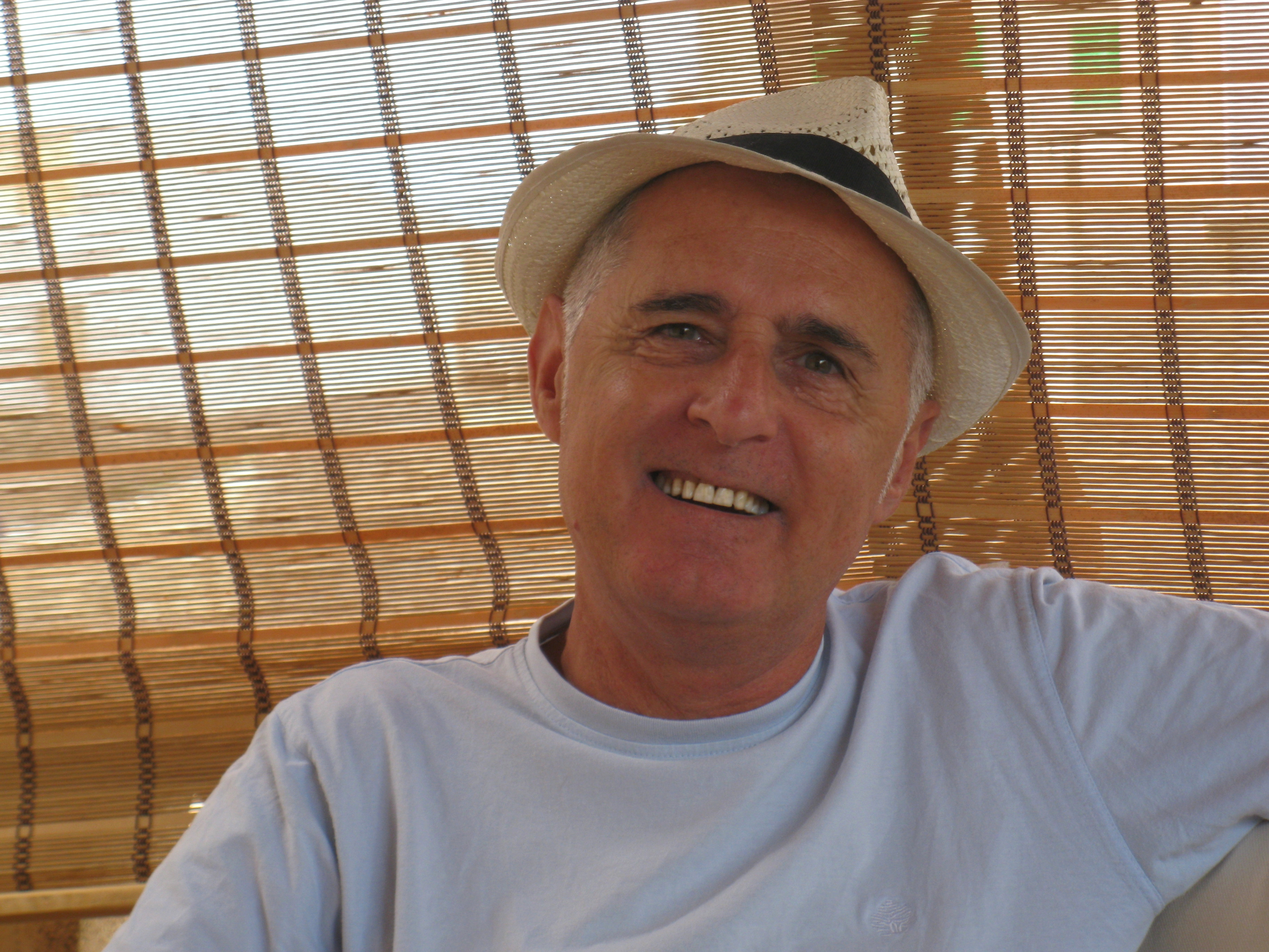 Portrait Norberto Luis Romero